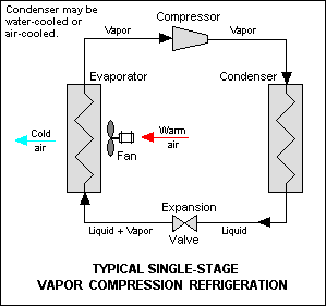 Image:Refrigeration.jpg with JPEG artifacts removed by a four-line Python program. (Hooray for python-imaging!) This is a diagram of a Vapor-compression Refrigeration system. - Mbeychok 18:57, 20 September 2007 (UTC)